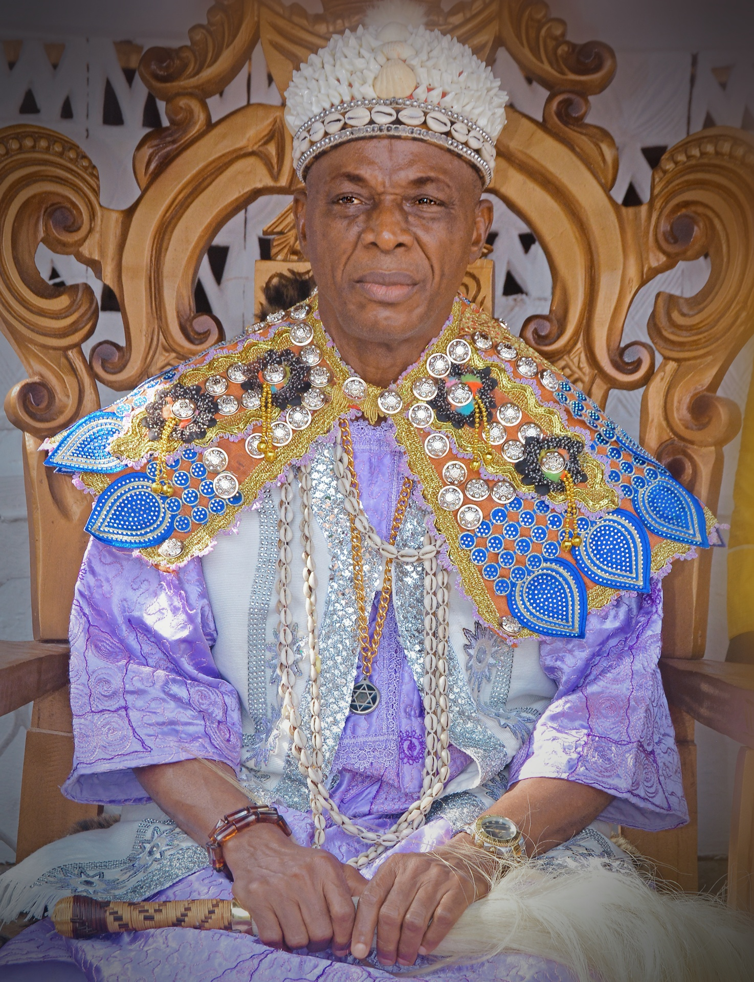 A photo of His Majesty Eze Chukwuemeka Eri (Ezeora 34th / Aka Ji Ovọ Igbo), the Eze Odinani Aguleri, traditonal ruler of Enugwu Aguleri and current occupant of Eri throne.